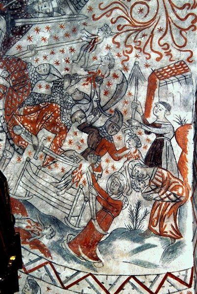 Frescoes by The Isefjord Master from apr. 1460-1480 in Tuse Kirke (church)